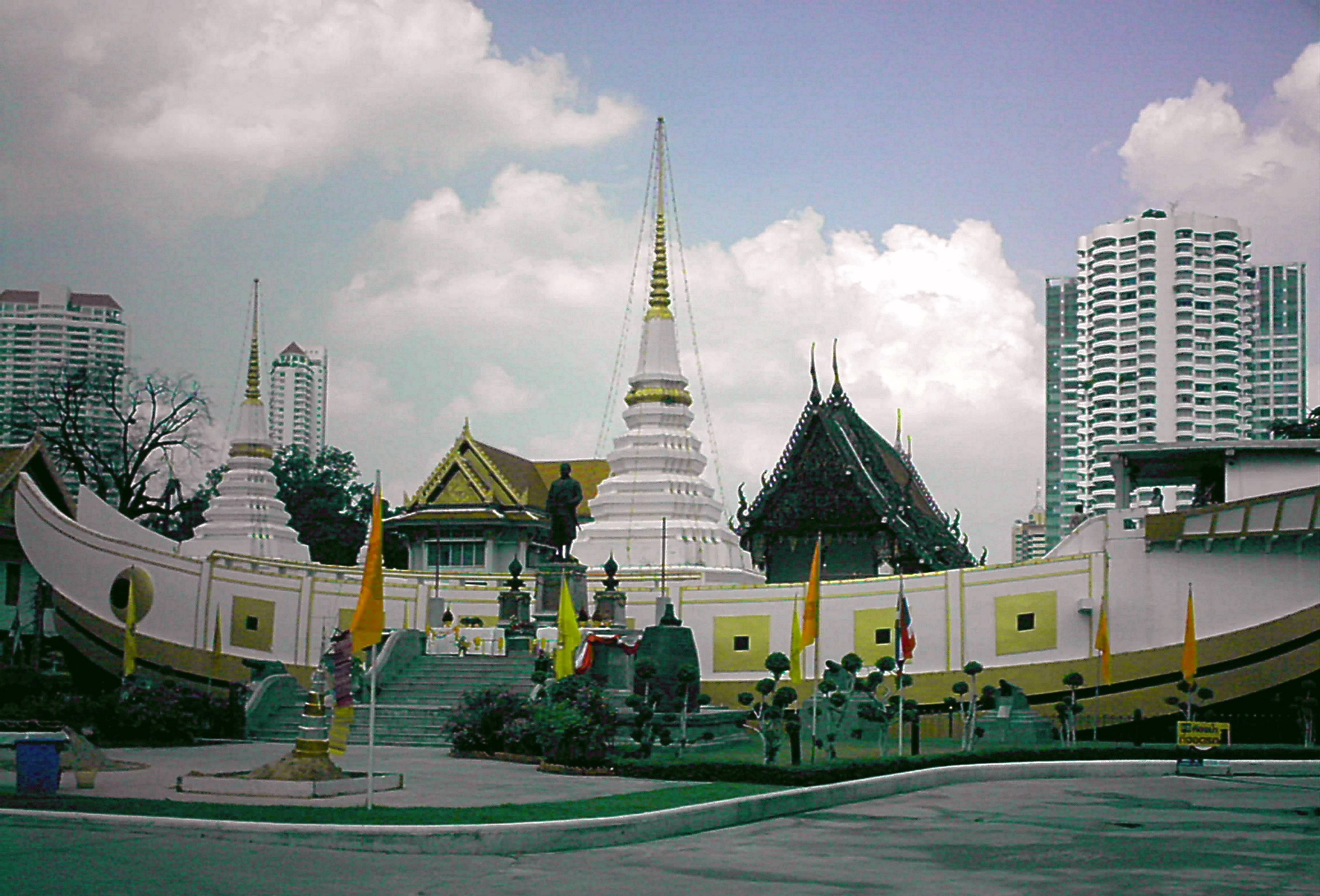 Ship Shape Hall of Wat Yanawan, Charoen Krung Road, Bangkok, Thailand 中文（香港）: 泰國，曼谷，然那哇縣，石龍軍路的龍船寺之船型大殿